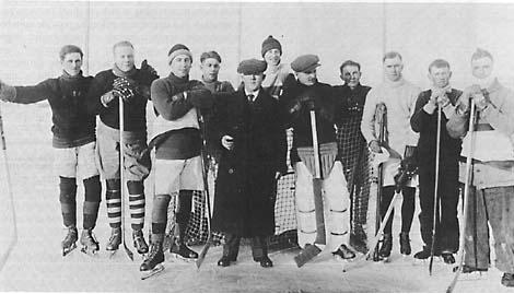 Eatonia's first ice hockey team. Left to Right: W. Ewing, G.C. Burbidge, F.J. Corcoran, T. Defoe, A.M. Defoe, "Slim" Wilson, H. Hahn, M. Herr, W. Harper, C. Root, C. Bennett